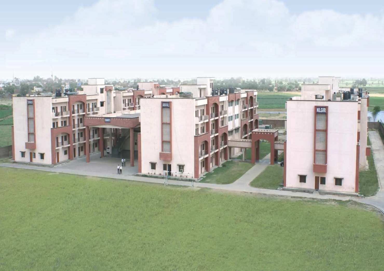 IMS BOY's HOSTEL